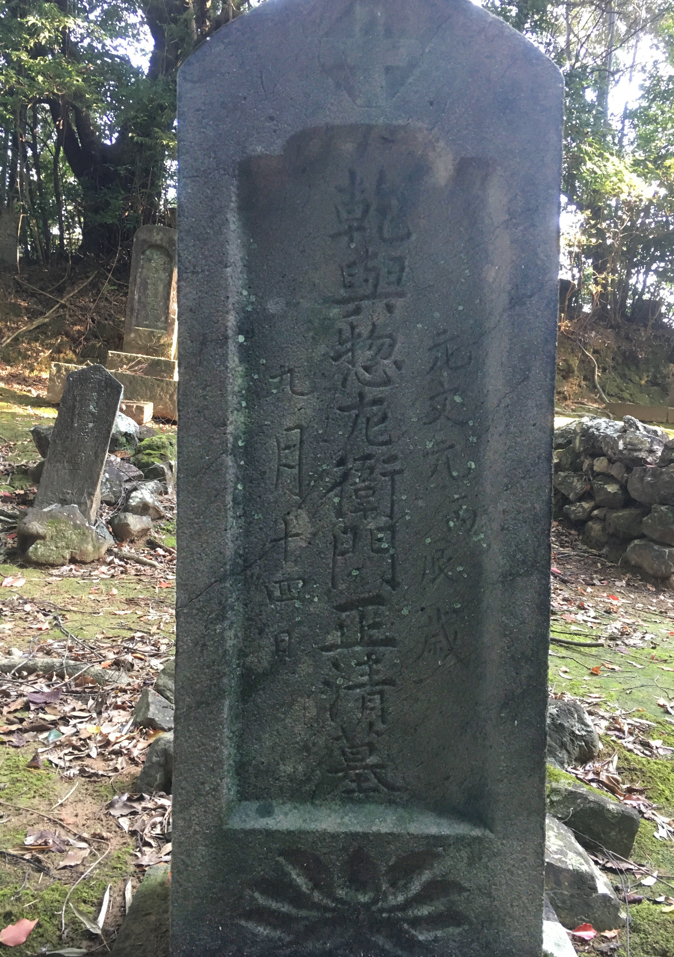 Tomb of Masakiyo Inui Itagaki( -1736)